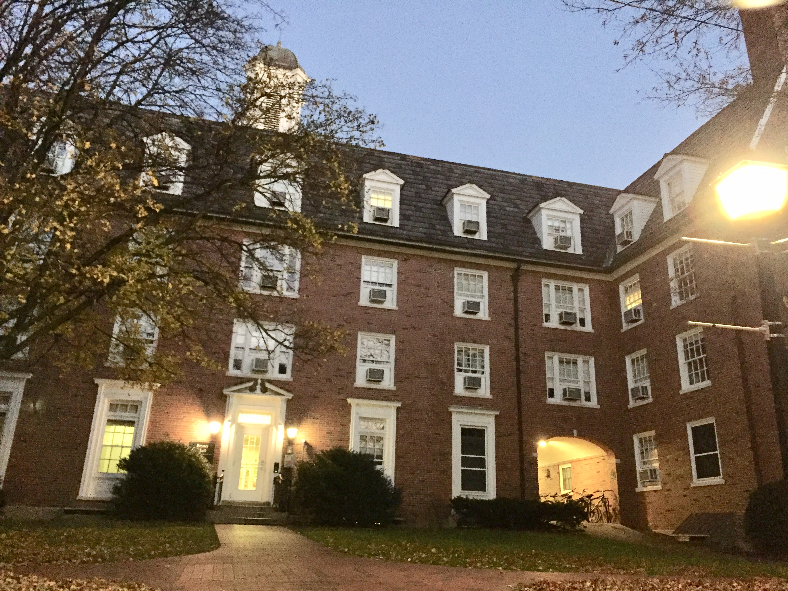 Named after Elmer Burritt Bryan in 1949, this hall was built in 1948 and is on College Green.